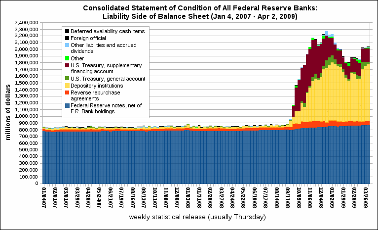 Components of the liability side of the Federal Reserve System balance sheet using statistical release dates from January 4, 2007 to Arpil 2, 2009. This is the liabilities of all 12 Federal Reserve Banks combined as reported by the Federal Reserve. This image was created using Calc spreadsheet program. See table below for source data. The data was obtained from